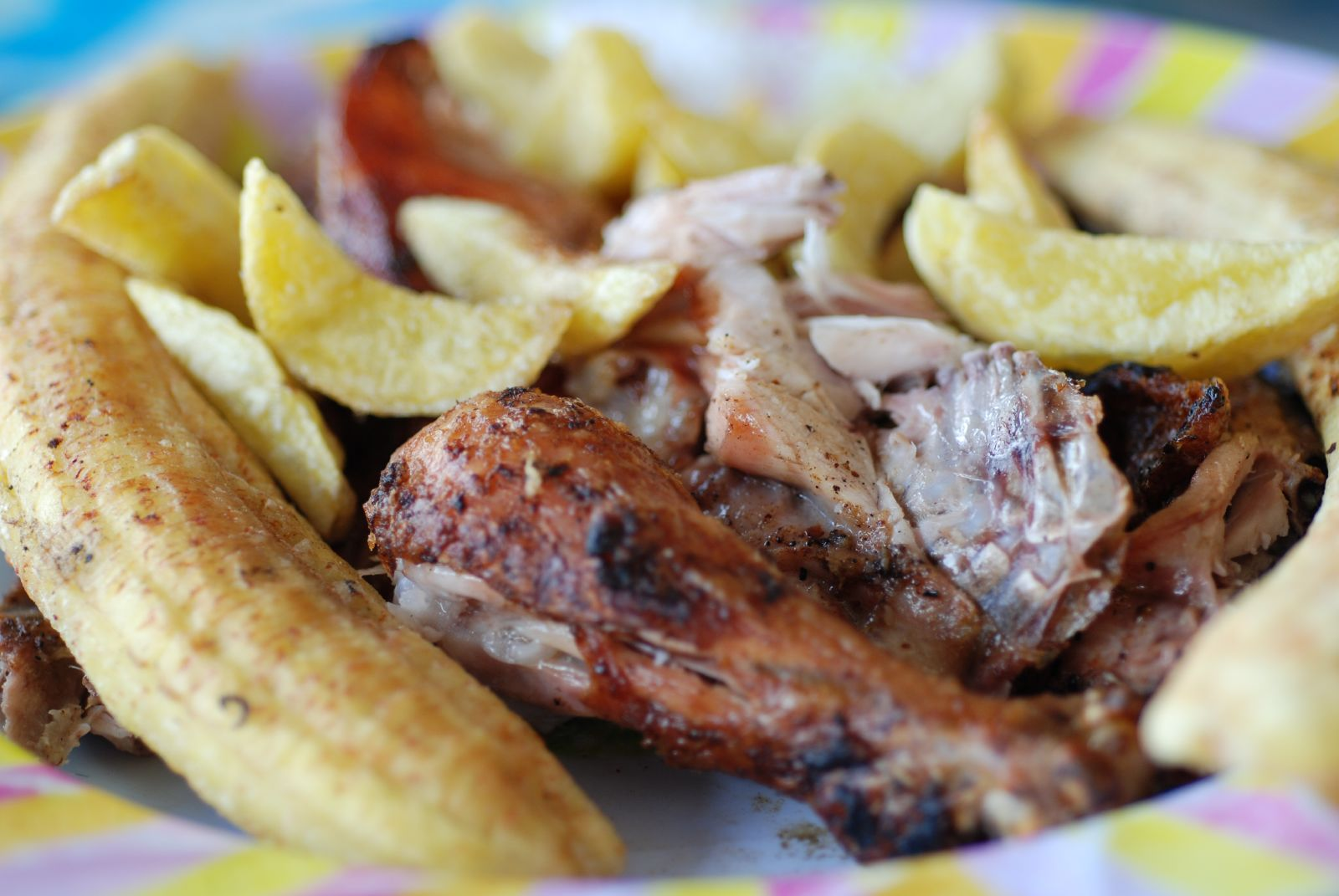 Lunch in Arusha, Arusha